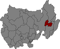 Location of Ponts in Noguera